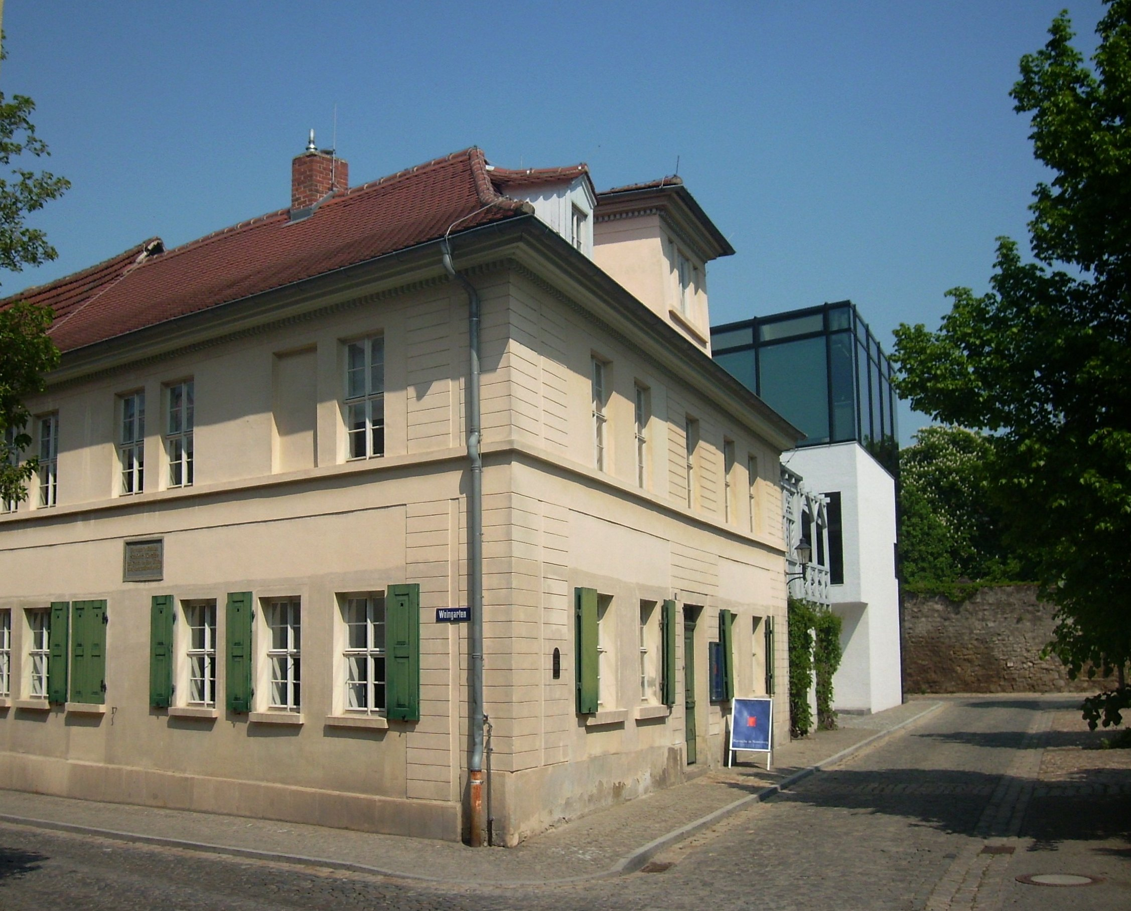 Nietzsche House and Nietzsche Documentation Centre in Naumburg (district of Burgenlandkreis, Saxony-Anhalt)